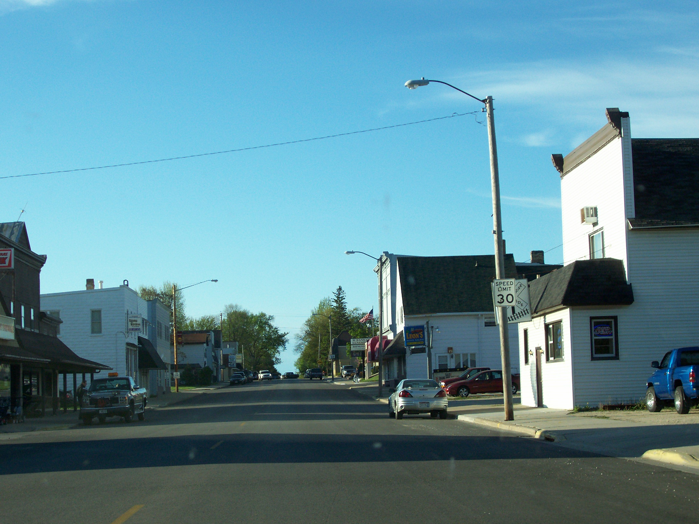 Looking north at downtown where the railroad used to cross Main Street Luxemburg, Wisconsin, USA